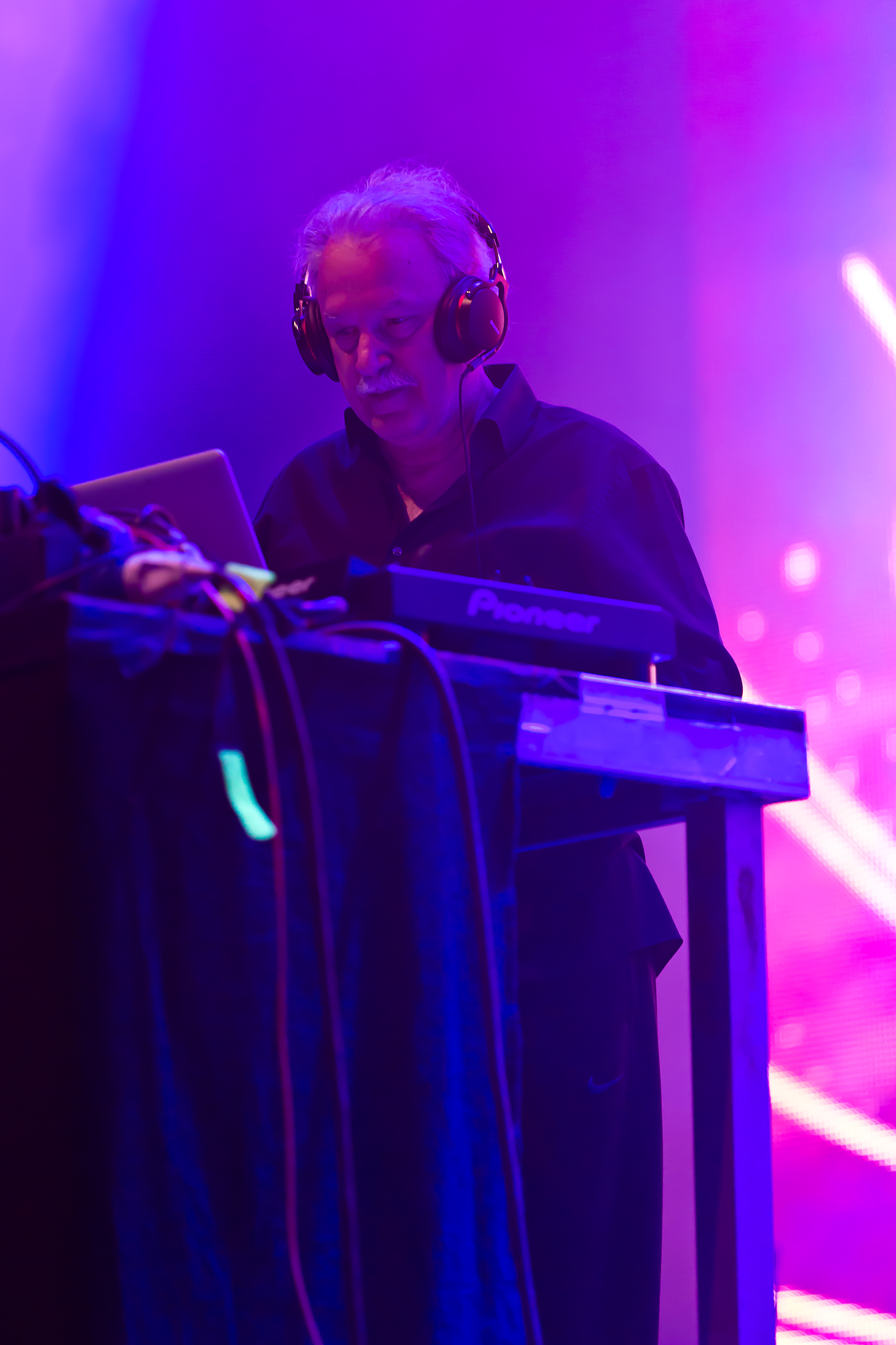 The Italian composer Giorgio Moroder at the Melt! 2015 in Ferropolis/Germany.